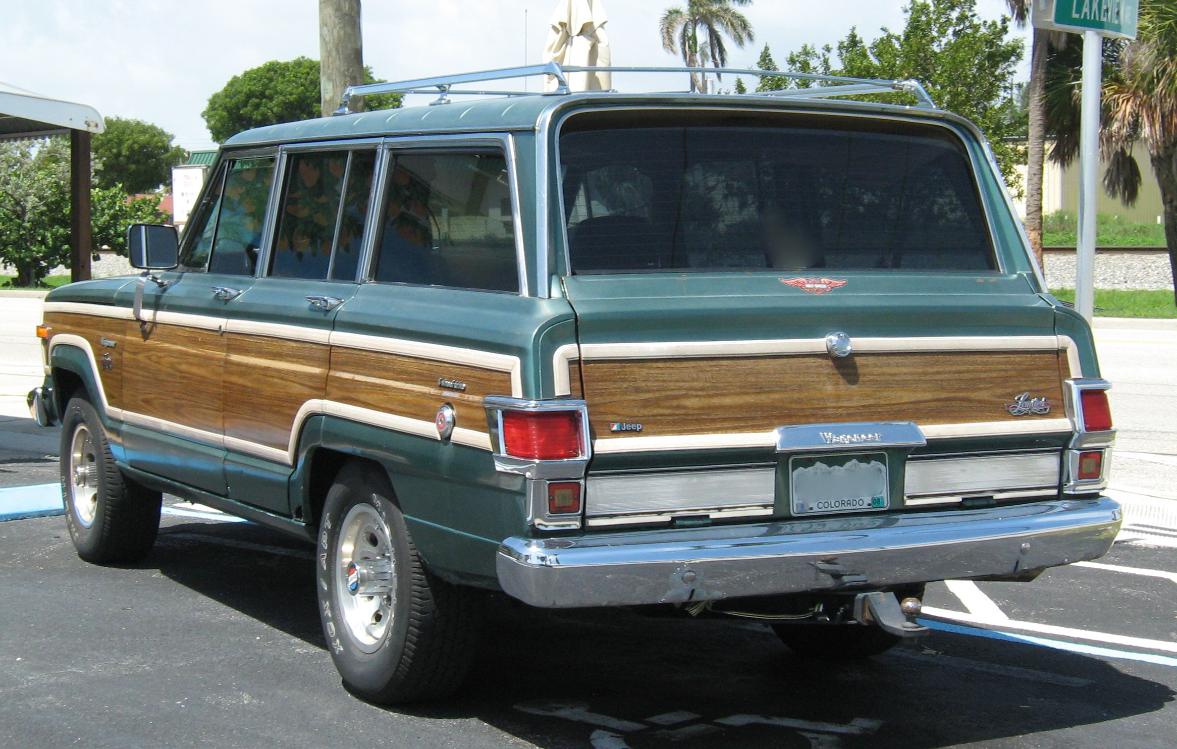 Jeep Grand Cherokee (SJ) finished in green - rear view. Photographed in Lantana, Florida, USA.